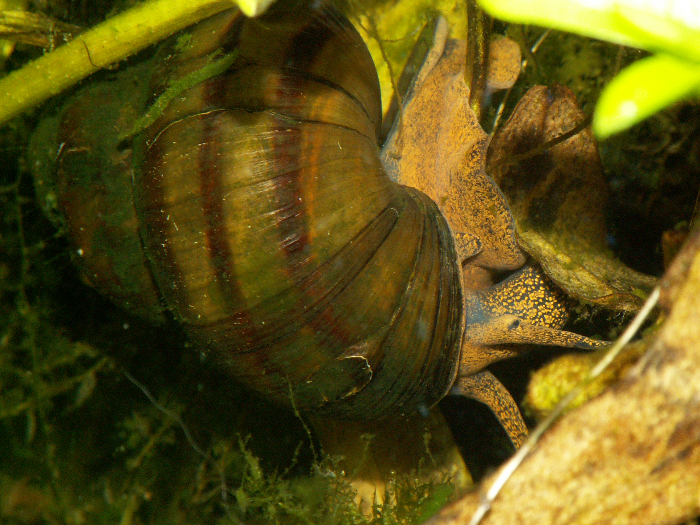 Probably Viviparus viviparus from the Betuwe, the Netherlands